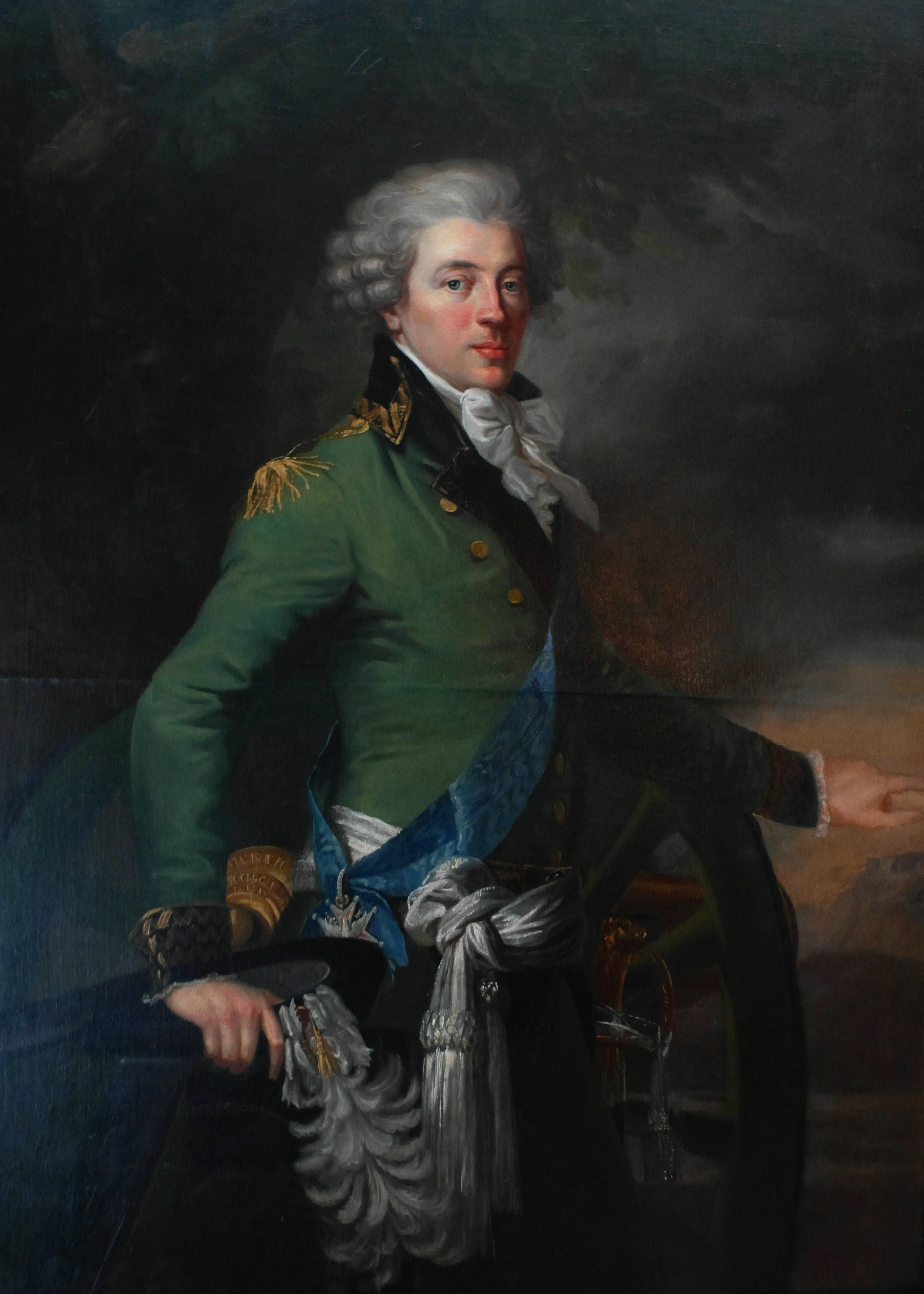 Stanisław Kostka Potocki by Józef Grassi